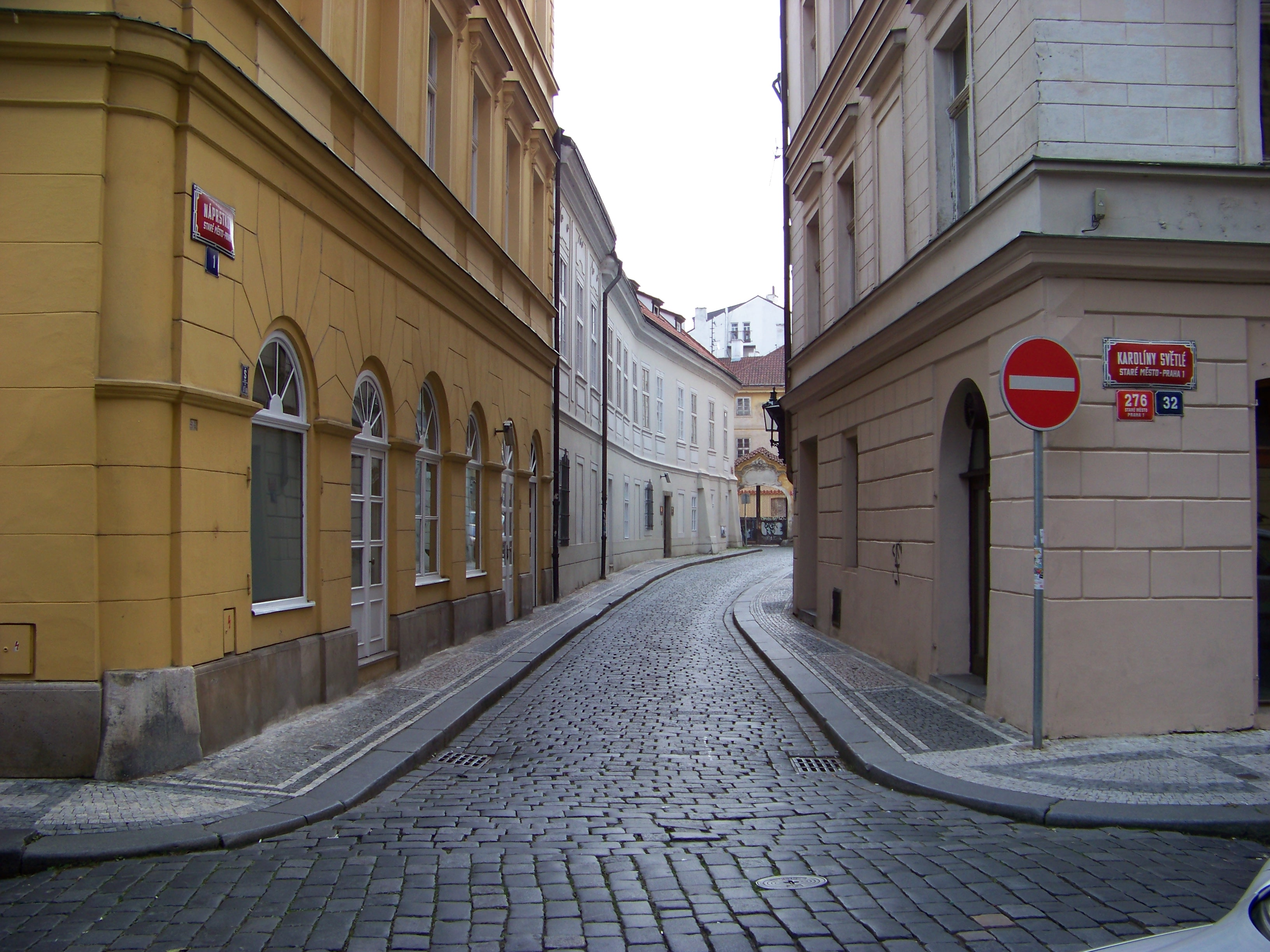 Prague-Old Town. Náprstkova street.